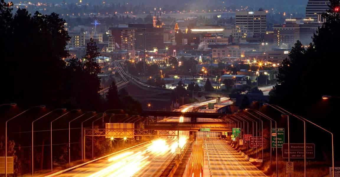 Overlooking Spokane from Sunset hill